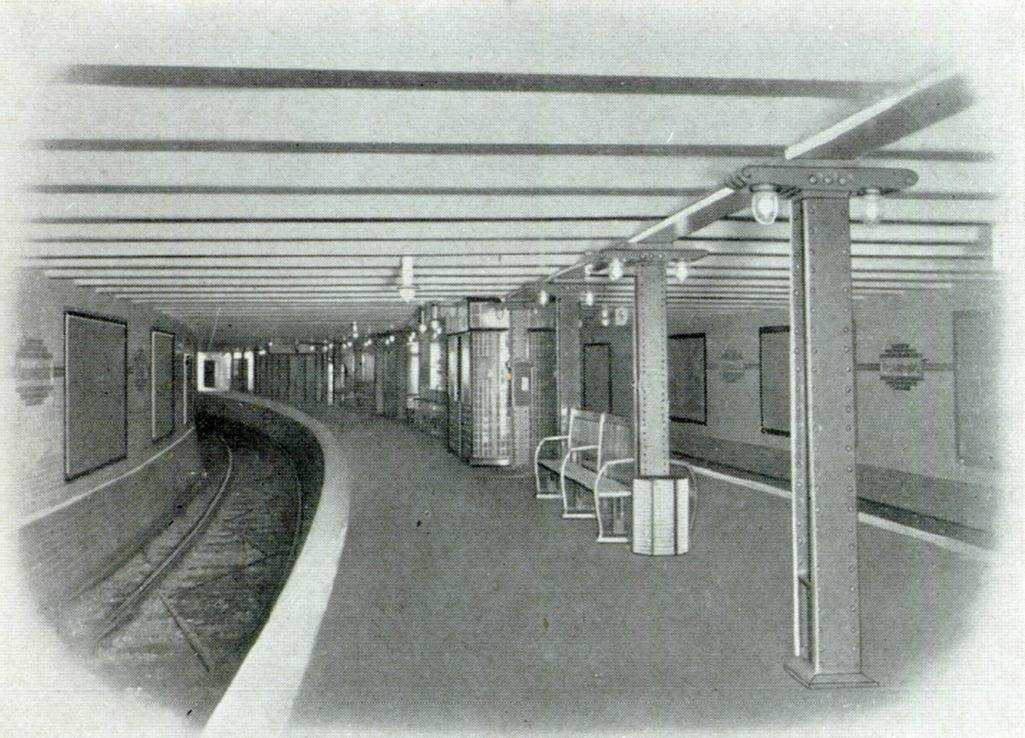 The Berlin U-Bahn station Hausvogteiplatz, line U2